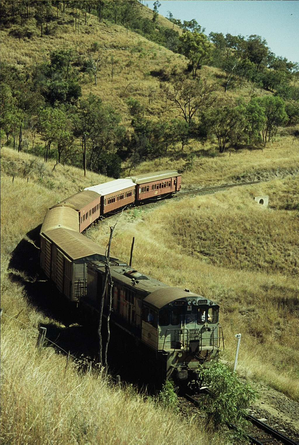 QR loco 1732 hauls a special train on the Bogantungan Range section of the Central West line, September 1989